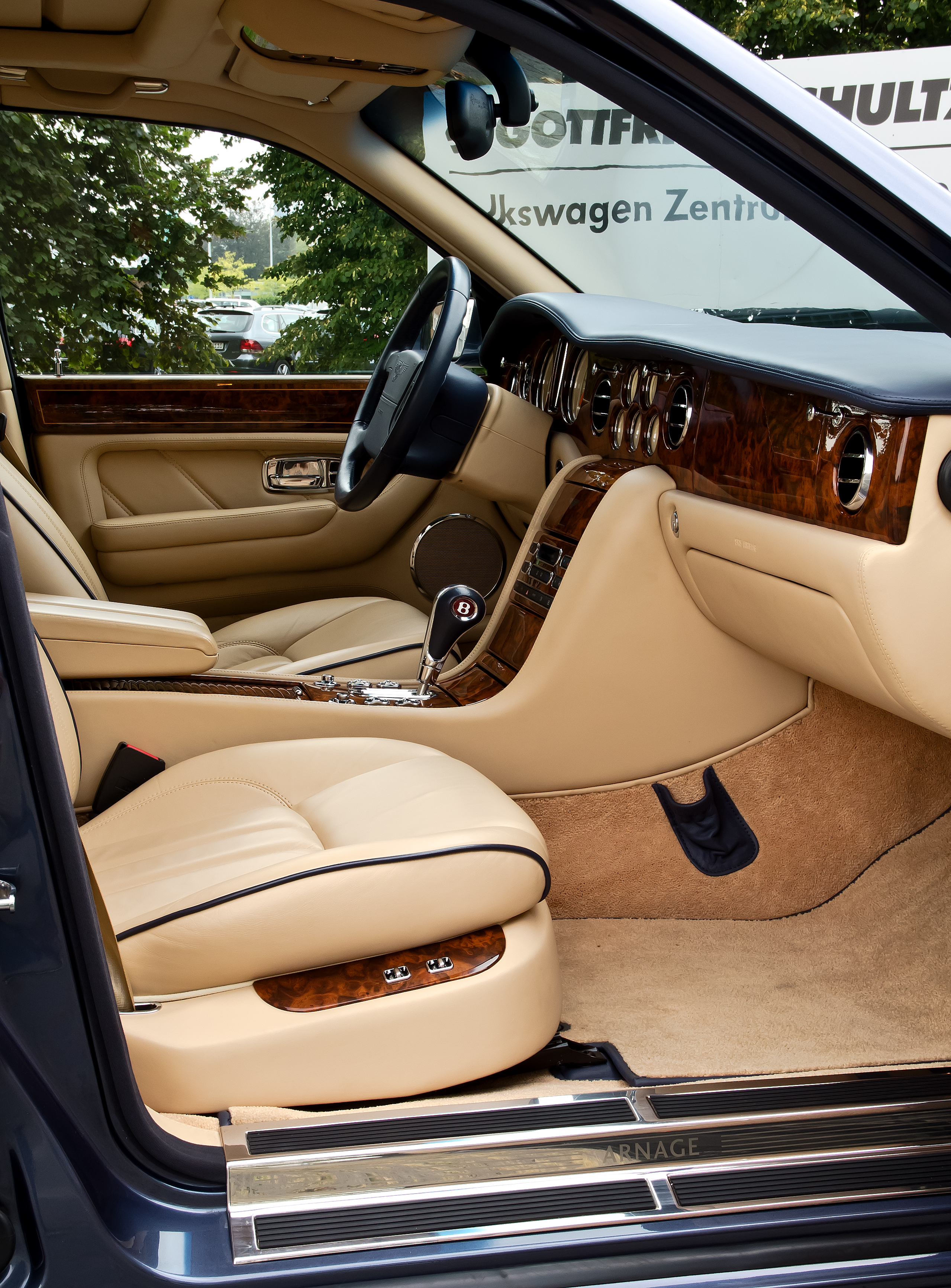 Bentley Arnage R (Facelift)